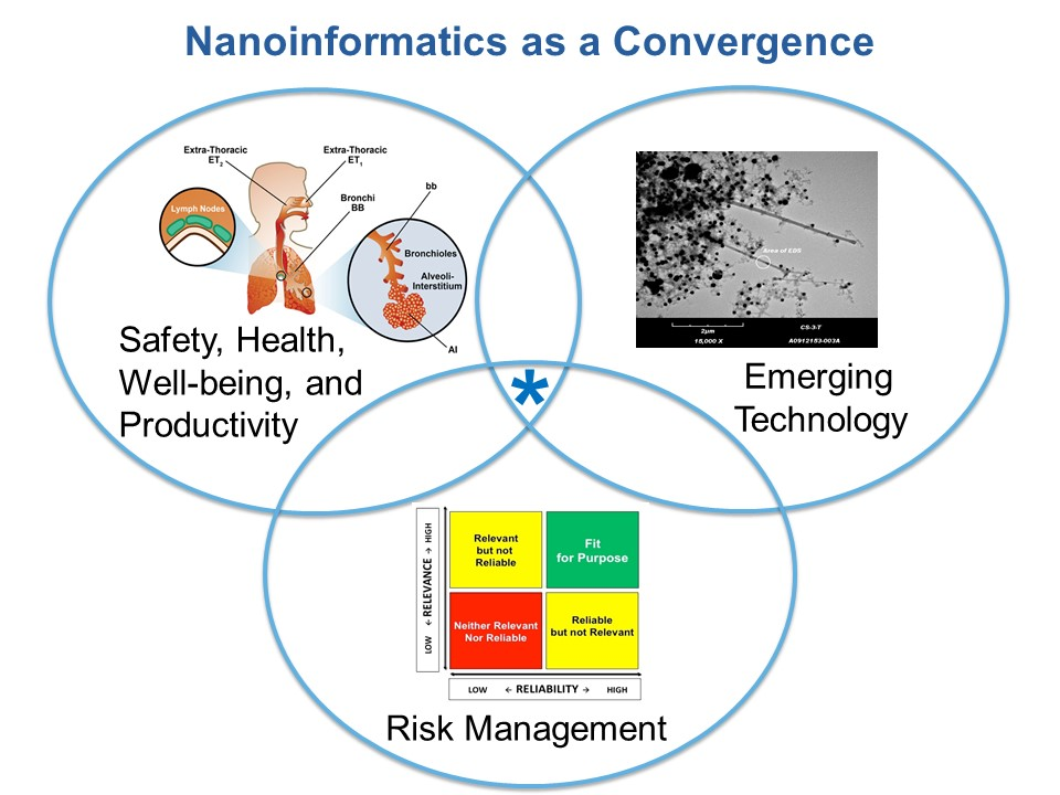 The context of nanoinformatics is that effective development and implementation of the imagined applications and benefits of nanotechnology requires the harnessing of information to support innovation and decision-making at the nexus of safety, health, well-being, and productivity; risk management; and emerging nanotechnology. There are many ways that this could be done and the nanoinformatics community has come together to develop and advance the science and practice of this approach.